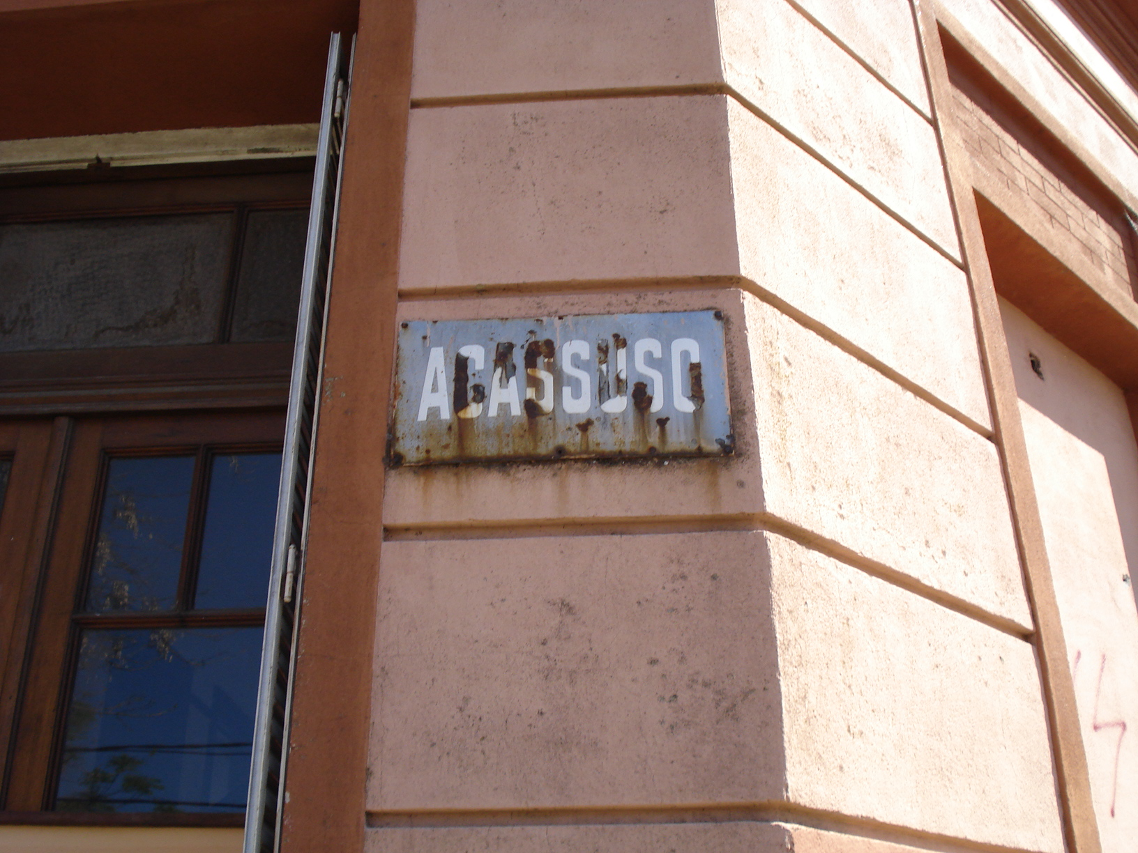 Street signal in Domingo de Acassuso street, Vicente López, Argentina.